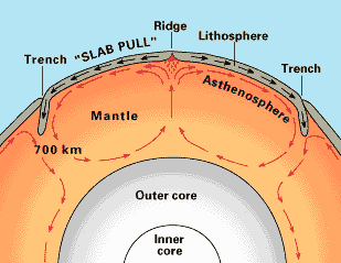 Information from english Wikipedia: Still from NASA movie that shows how ocean ridges are formed, lithosphere subducted at trenches; good for understanding plate tectonics. Scientifically not up to date. Found on USGS page [1], original movie at NASA [2]. PD-USGov-NASA